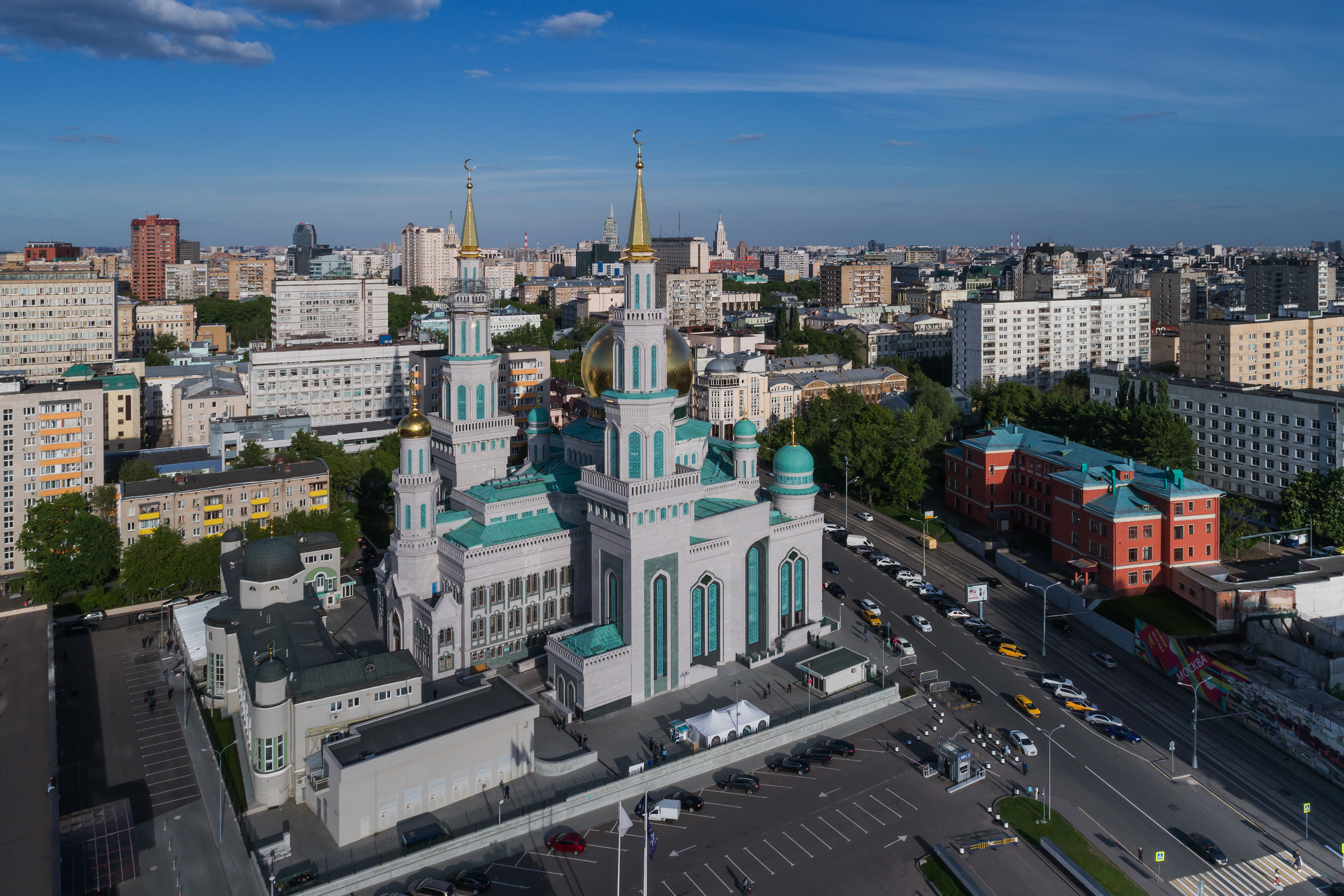 Aerial photo of New Cathedral Mosque in Moscow (Russia).